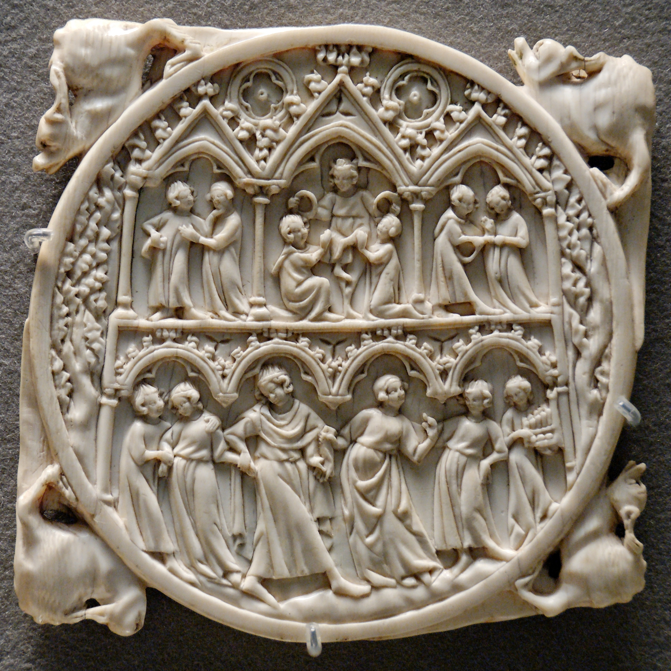 Mirror case: Court of the God of Love. Ivory with traces of polychromy.